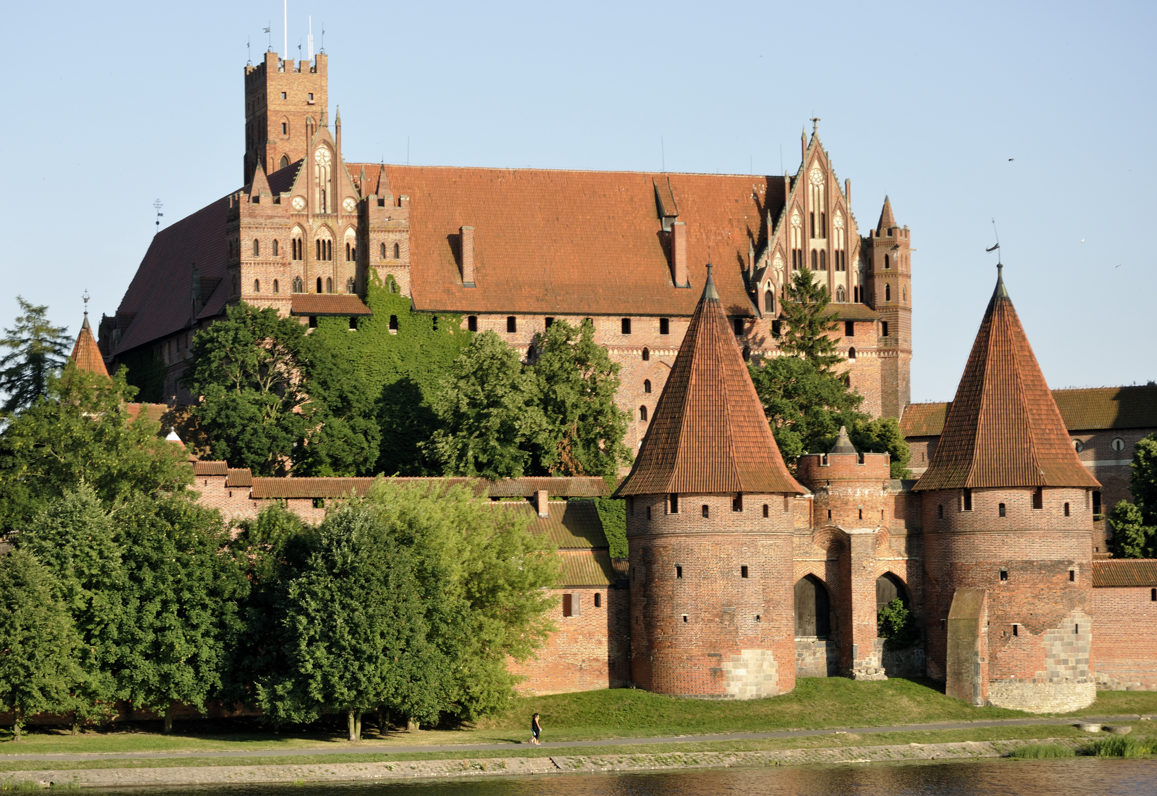 Picture taken in Malborg after Wikimania 2010 conference.